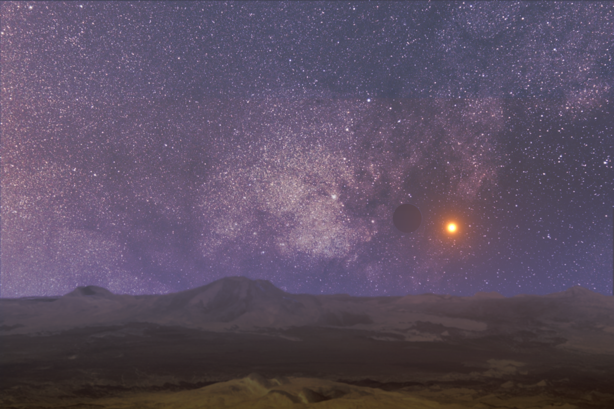 OGLE-2013-BLG-0723LBb is a Venus mass world orbiting an old brown dwarf, orbiting itself a low mass star, it can be seen as a missing link between a planet and a moon (A. Udalski & al. 2015) The ground is a radar view of Venus surface by Magellan probe. The bright red star is the red dwarf OGLE-2013-BLG-0723LA and the dark disc is the brown dwarf OGLE-2013-BLG-0723LB. The starry background is a view from earth of the center of our Milky Way, the region where this system belongs.